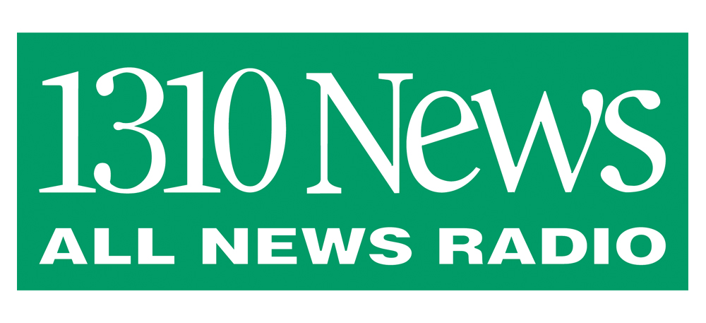 Logo of CIWW-AM "1310News"